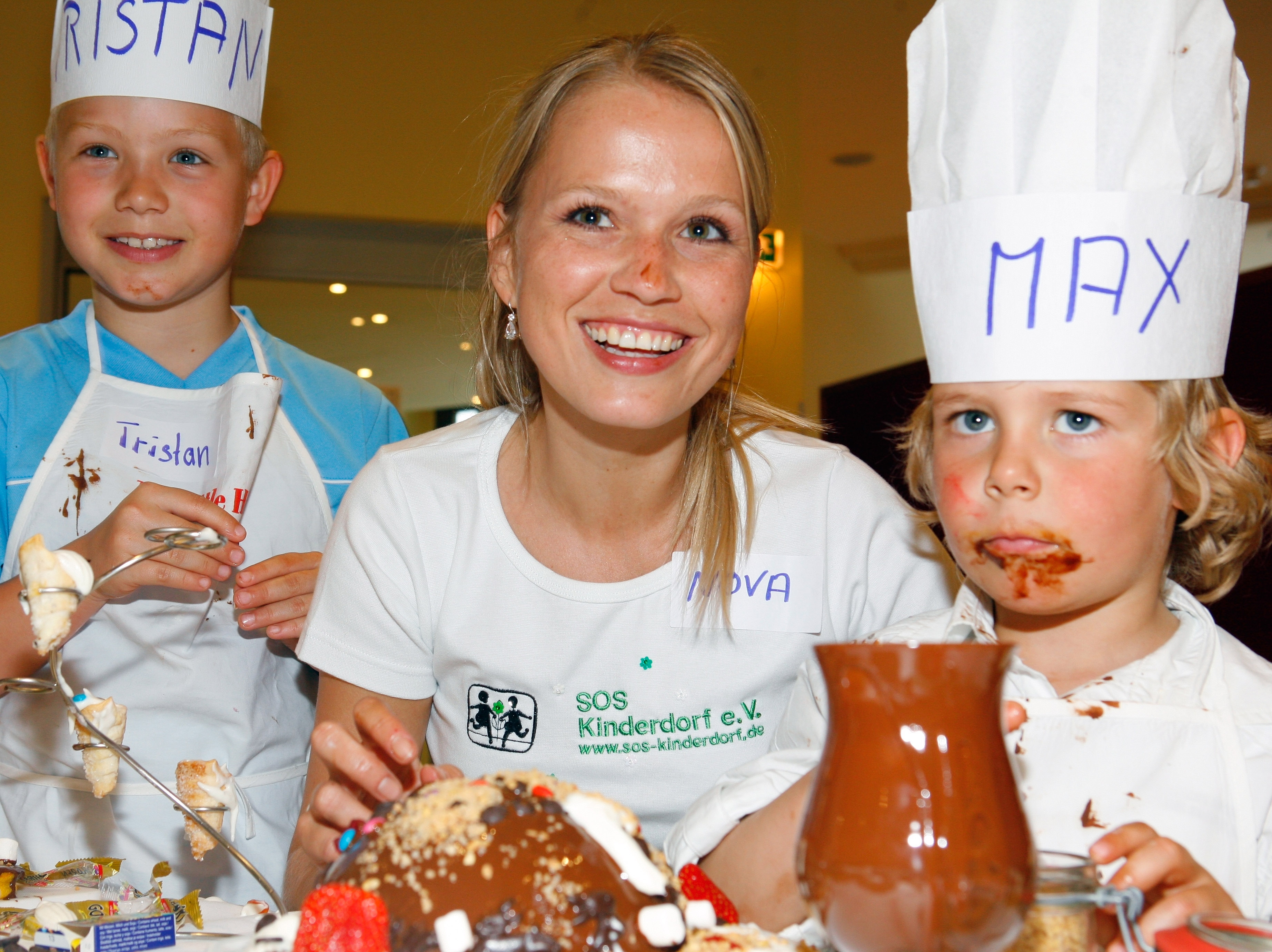 German actress & TV-Host Nova Meierhenrich for SOS-Kinderdörfer